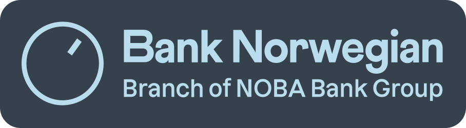 Bank Norwegian Logo